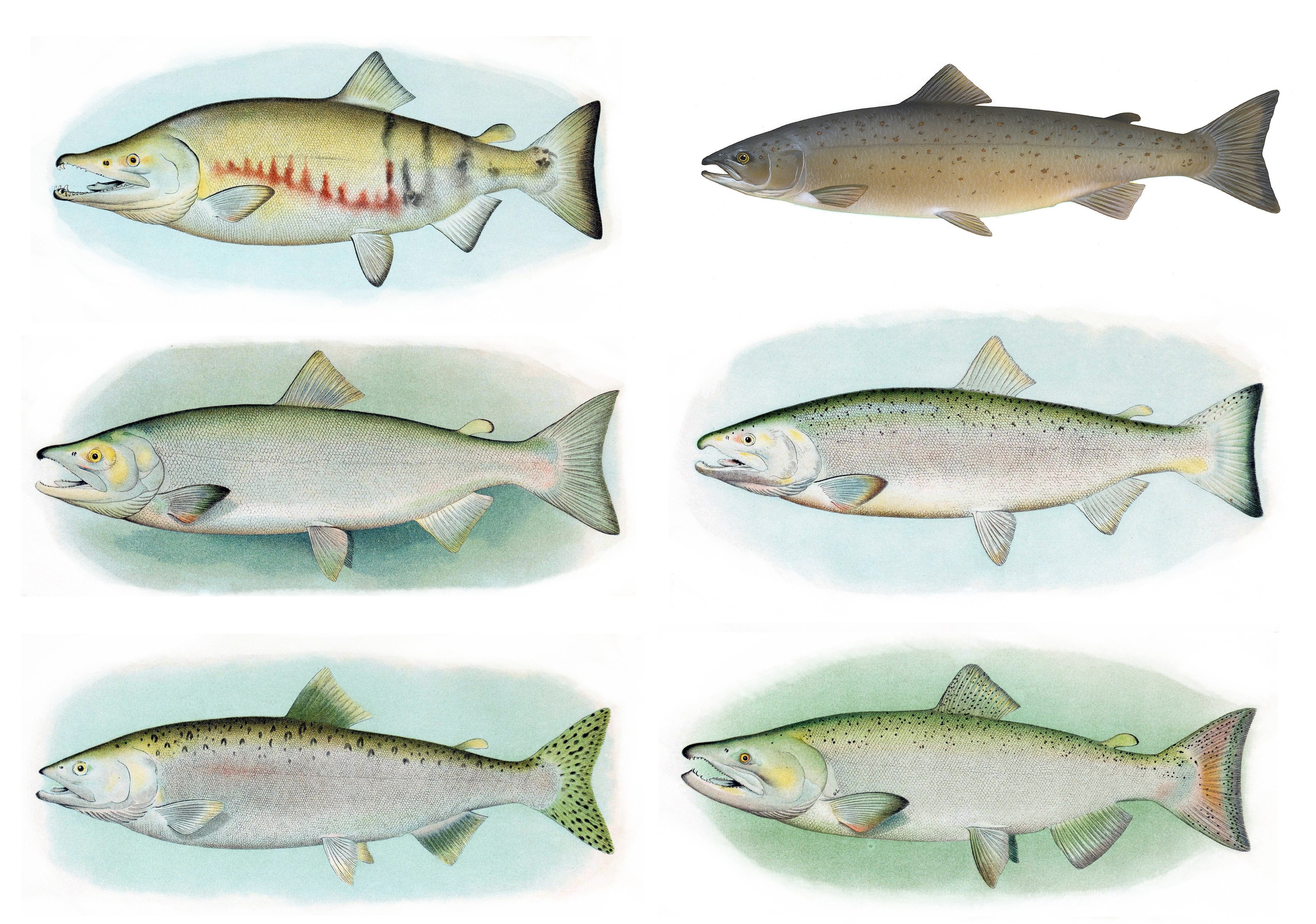 Salmon male adult 1-Oncorhynchus keta 2-Oncorhynchus nerka 3-Oncorhynchus gorbuscha 4-Salmo salar 5-Oncorhynchus kisutch 6-Oncorhynchus tshawytscha